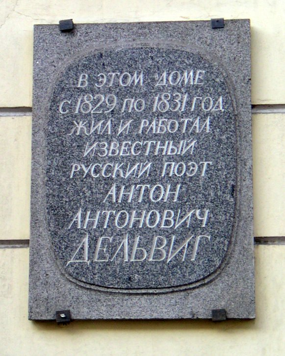 Plaque commemorating Anton Delvig at his lodgings in Zagorodniy Prospekt, St. Petersburg. i took this photo.